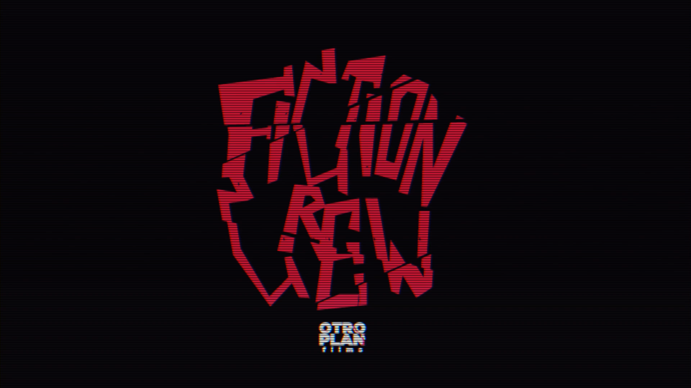 Fiction Crew logo